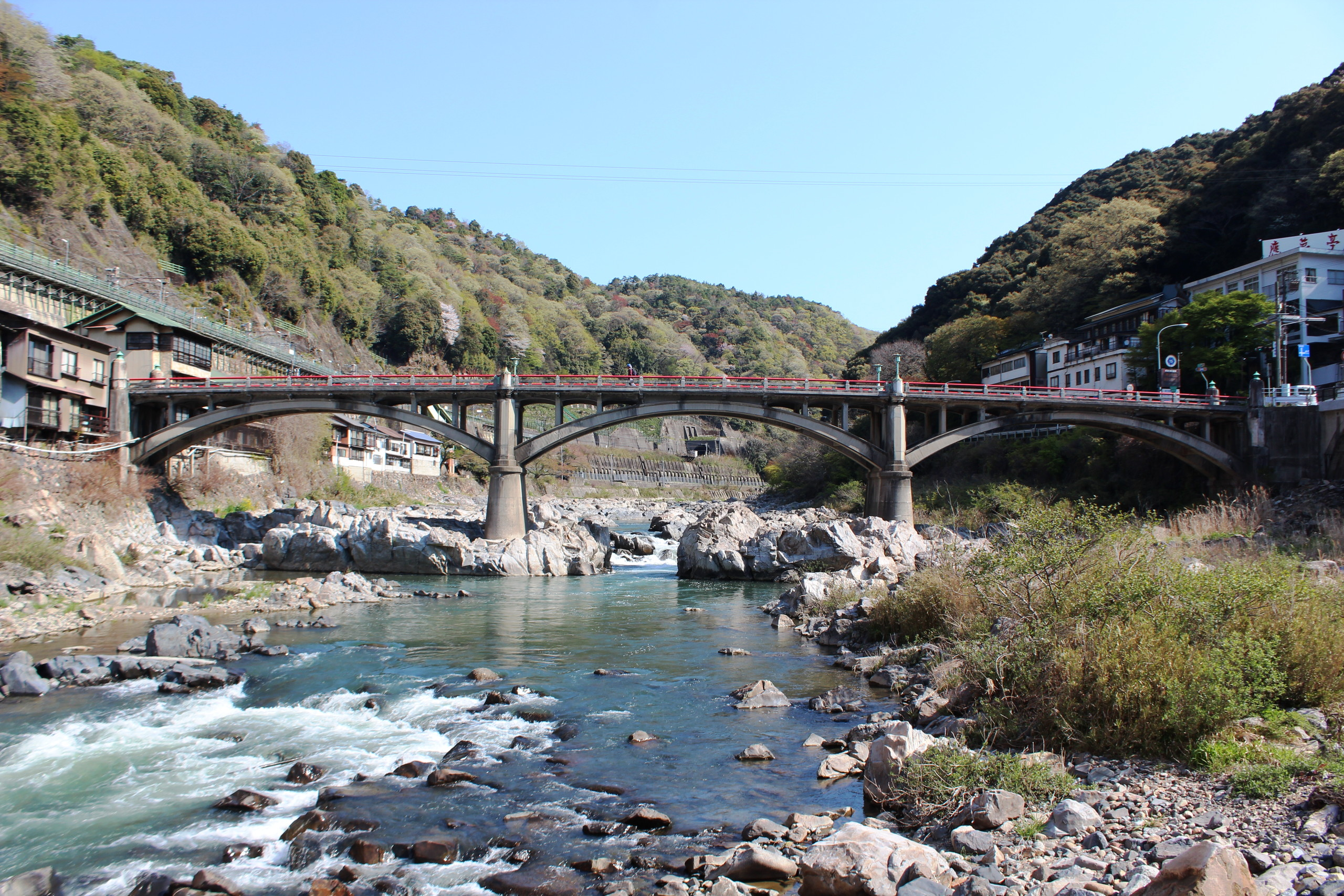 The Shirogane Bridge over the Shōnai River in Seto and Kasugai Cities, Aichi Prefecture, Japan